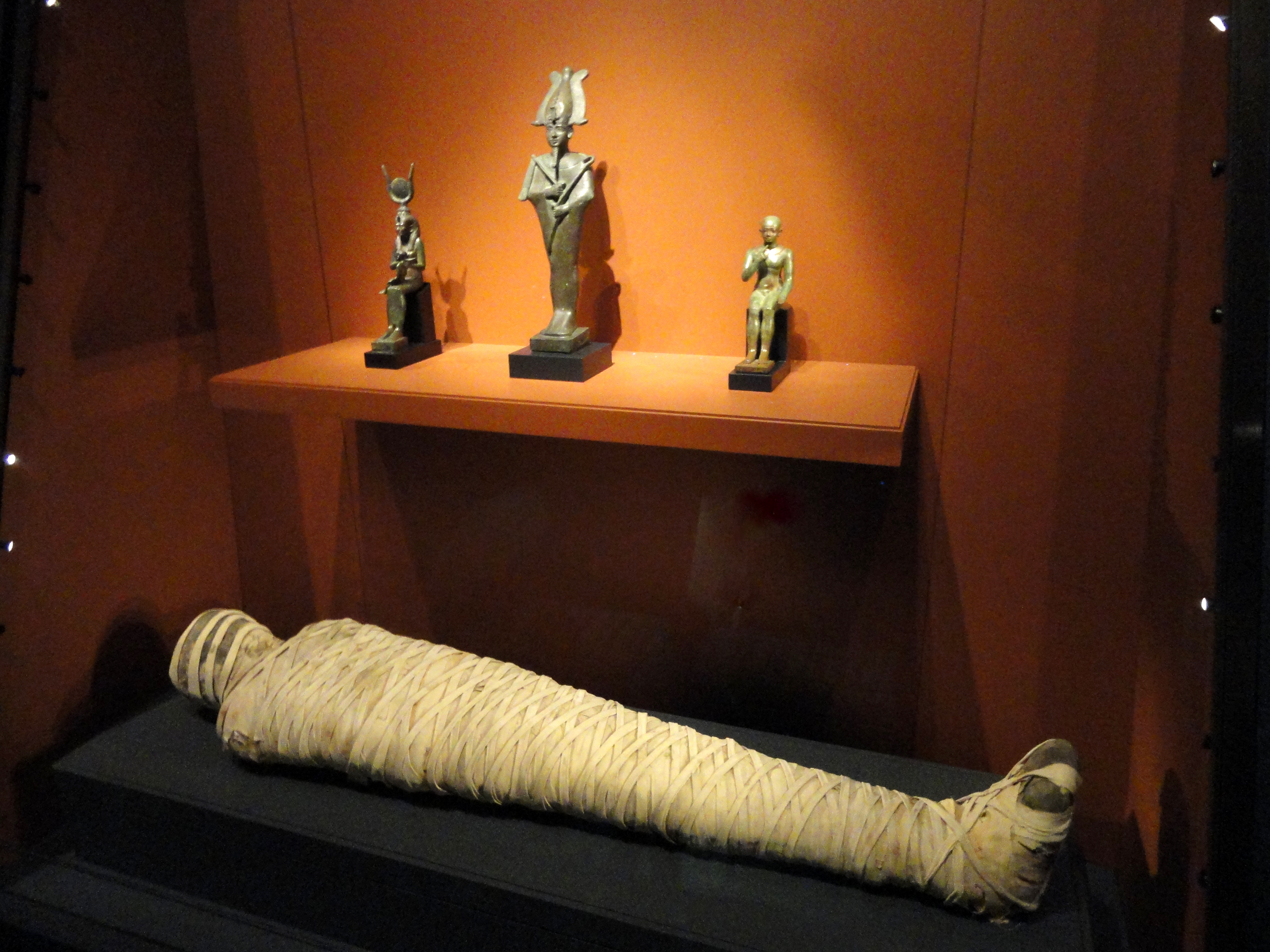 Exhibit in the Nelson-Atkins Museum of Art, Kansas City, Missouri, USA. ; I took this photograph and release it into the public domain.